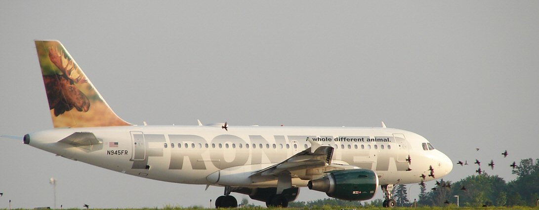 the whole different animal is kicking up some animals!